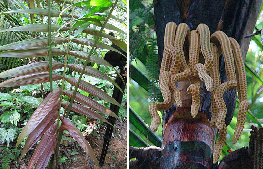 Showing the reddish young leaves that deter insects, and the dreadlock like rachis which give it the local name of Rastafarian Palm. Native from Nicaragua to Ecuador. Photo from the Sarapiqui Valley, Costa Rica.